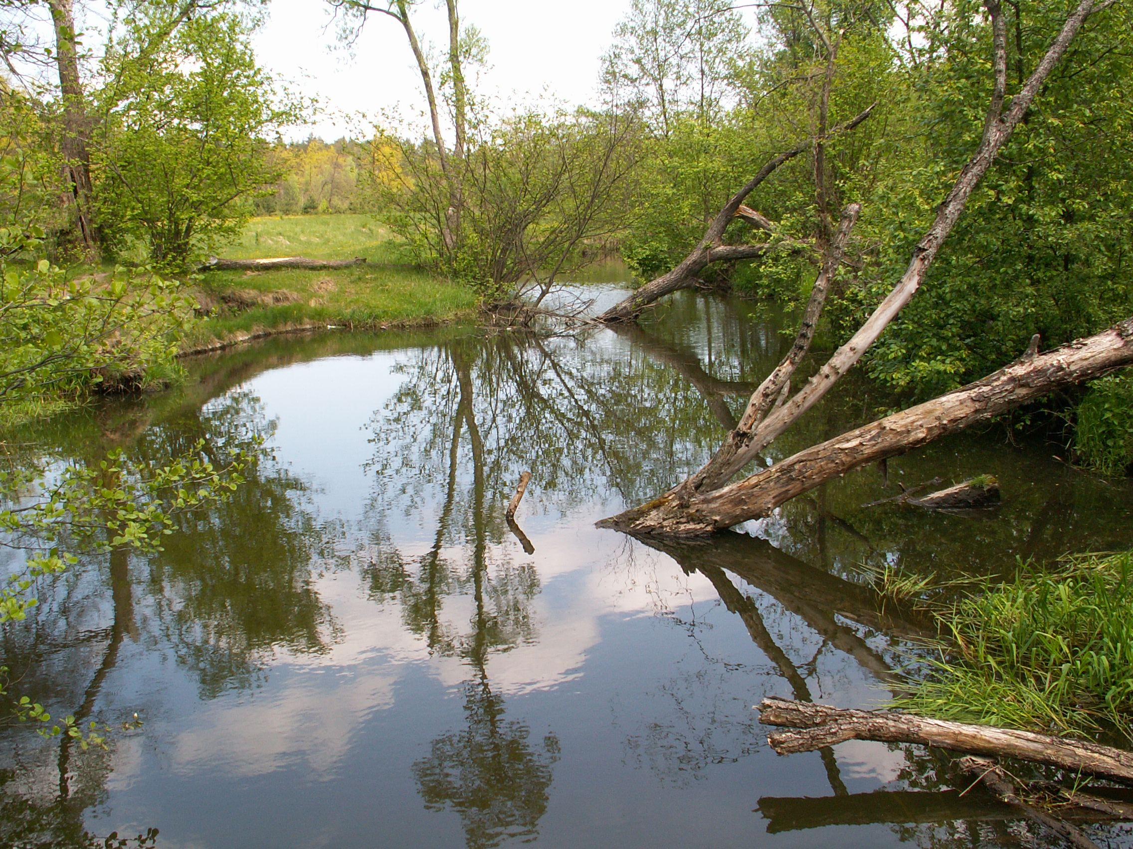 Kamionka river near Suchedniów(Poland)